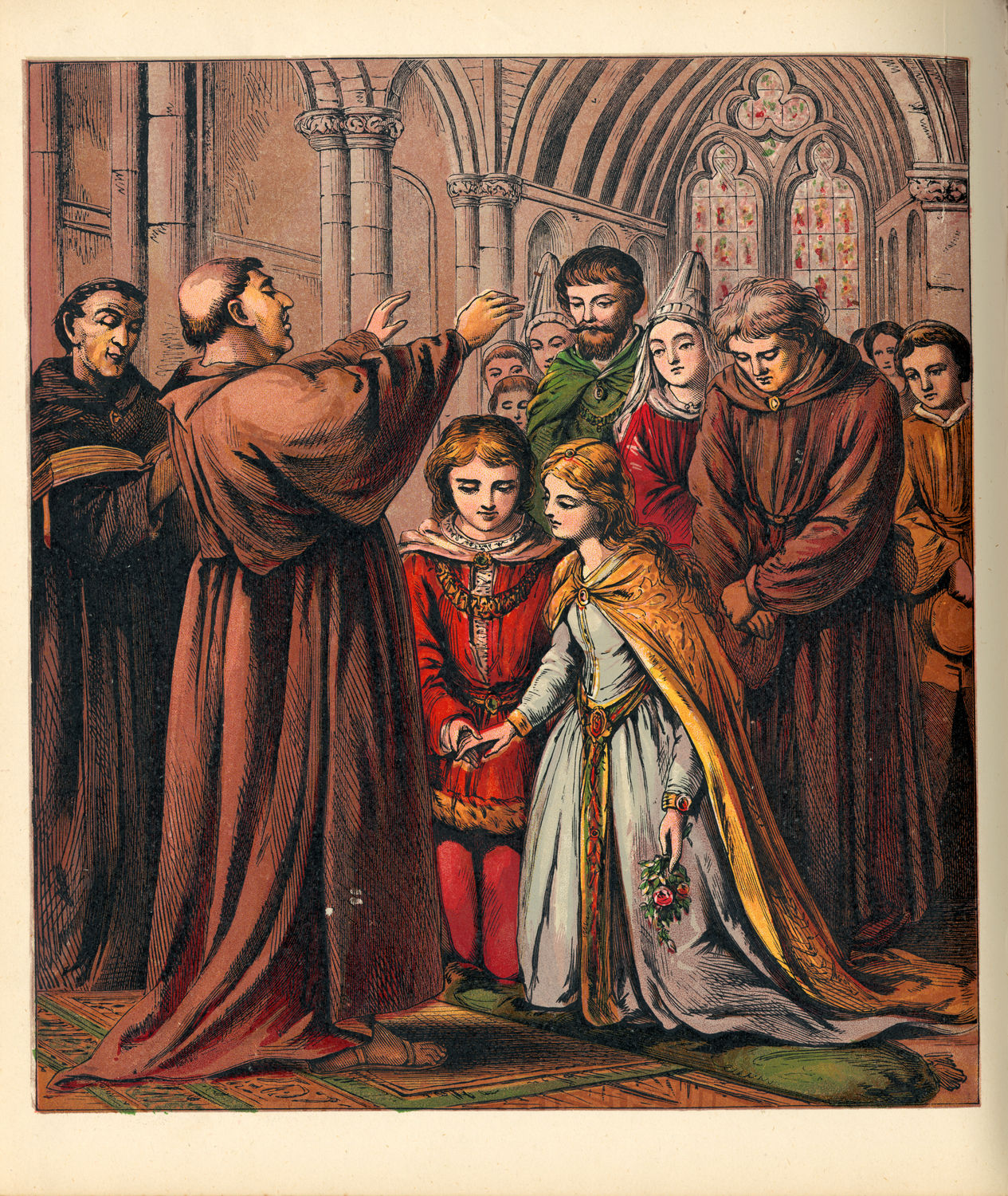 A scan of the book Aunt Louisa's Nursery Favourite.